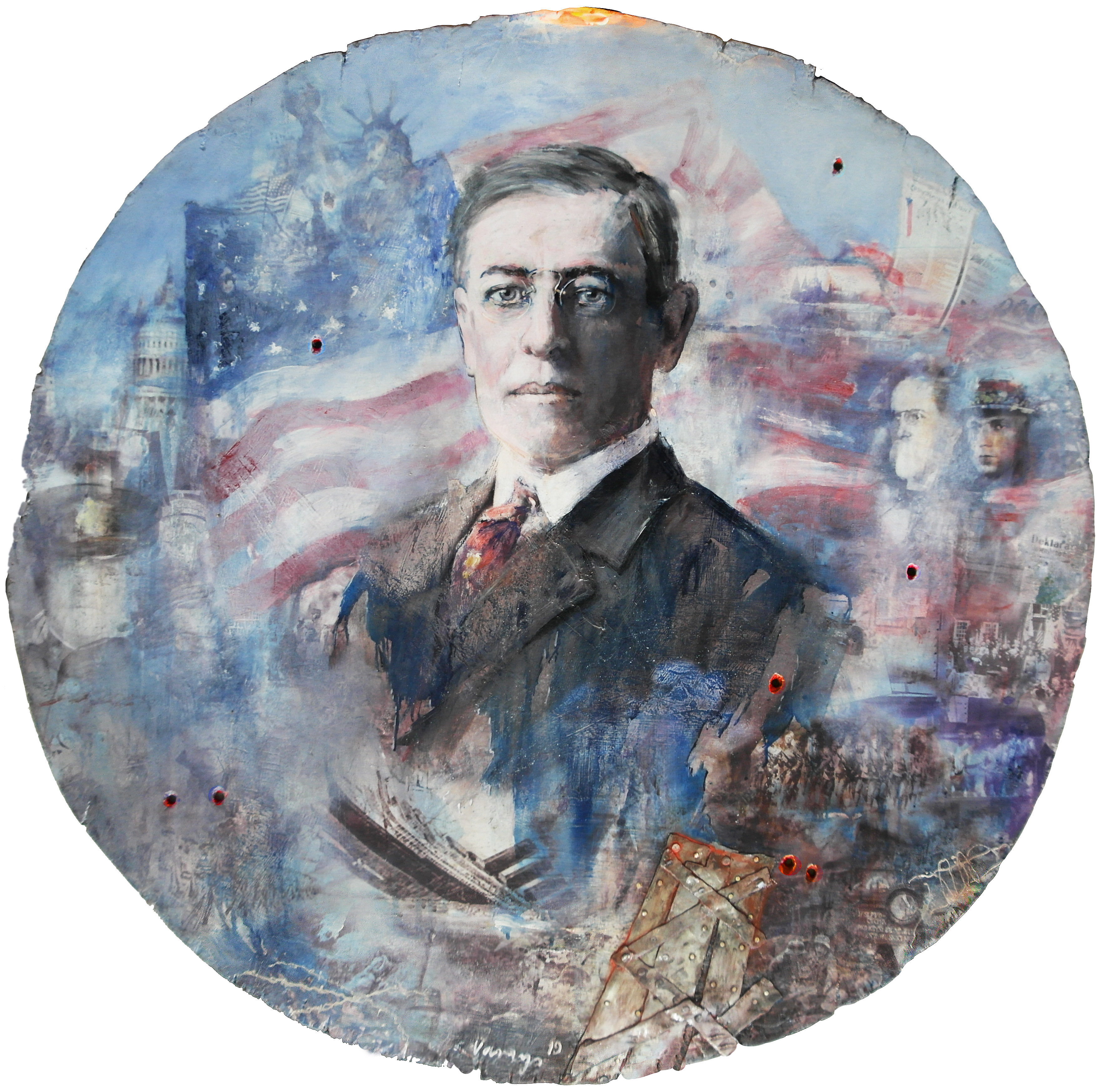 "Woodrow Wilson" - a portrait ortrait of the 28th President of the United States of America Thomas Woodrow Wilson. A portrait from a picture cycle called "Czech Memory" (This cycle is dedicated to dramatic historical events and personalities who wrote the history of the independent state of Bohemia and the Slovaks from its origin (1918) to the present (2018); form of wok of art: painting on wood - circular "shooting target"; Author: academic painter Pavel Vavrys; year: 2019.